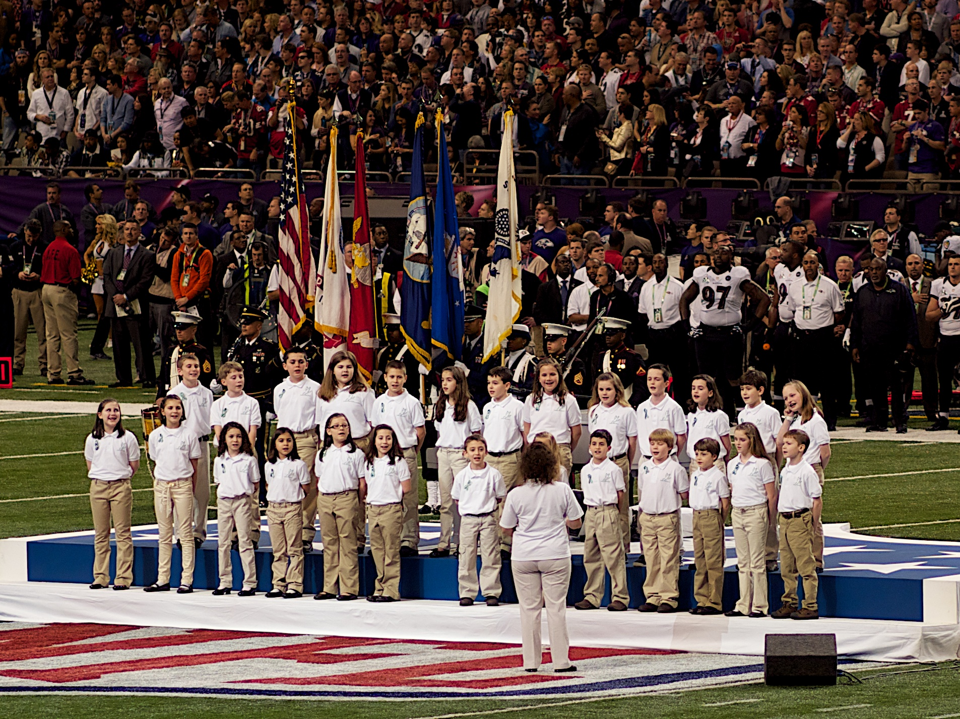 Sandy Hook Elementary School Choir performs during the pre-game of Super Bowl XLVII in New Orleans, Louisiana on February 3, 2013.